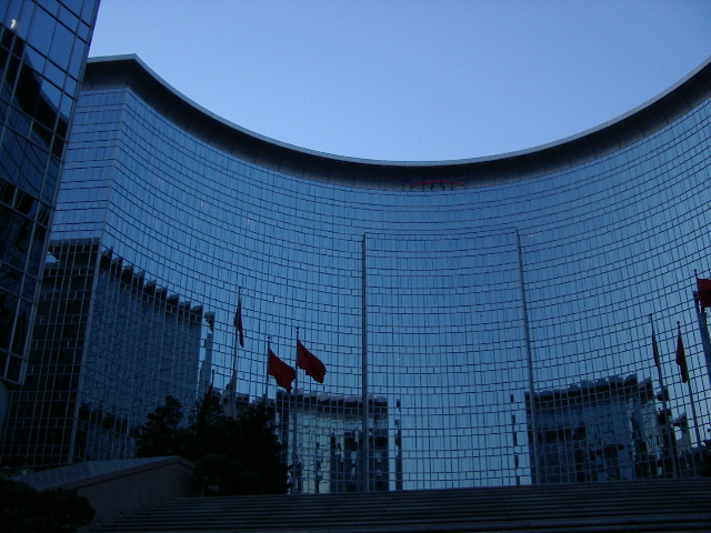 photo taken by myself. April/2004